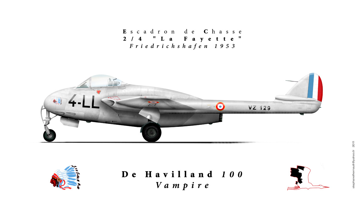 DH 100 Vampire escadron La Fayette French Air Force 1953